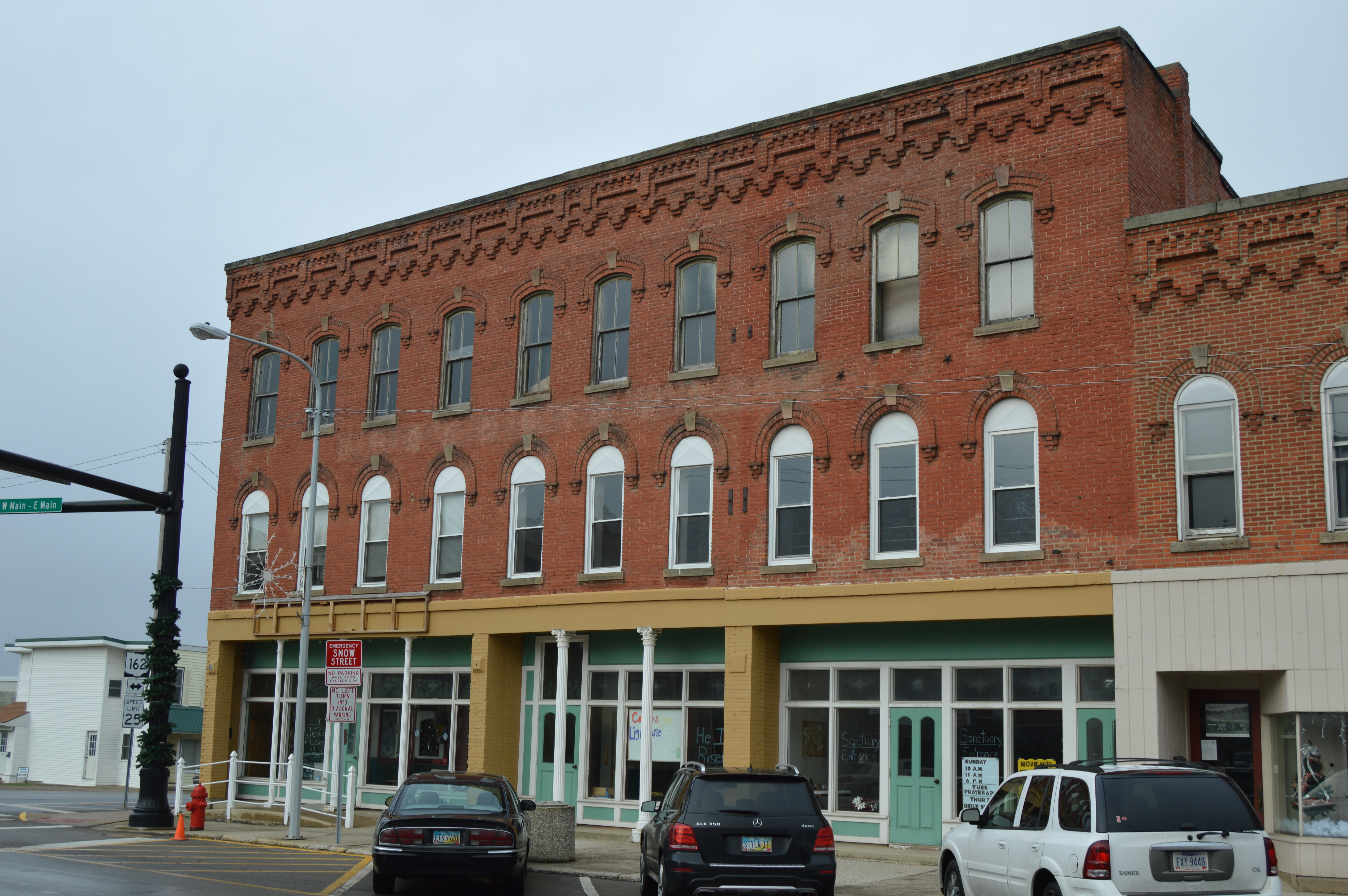 Front of the Gregory House, located on the northeastern corner of the junction of North (State Route 60) and East (State Route 162) Main Streets in New London, Ohio, United States. Built in 1873, it is listed on the National Register of Historic Places.